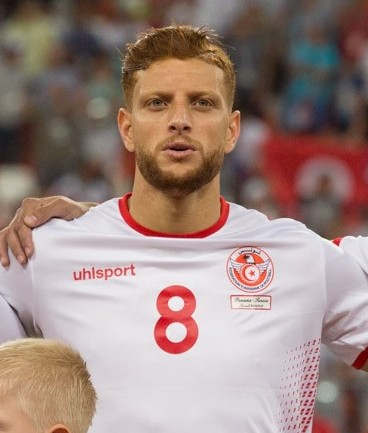 Tunisia national football team